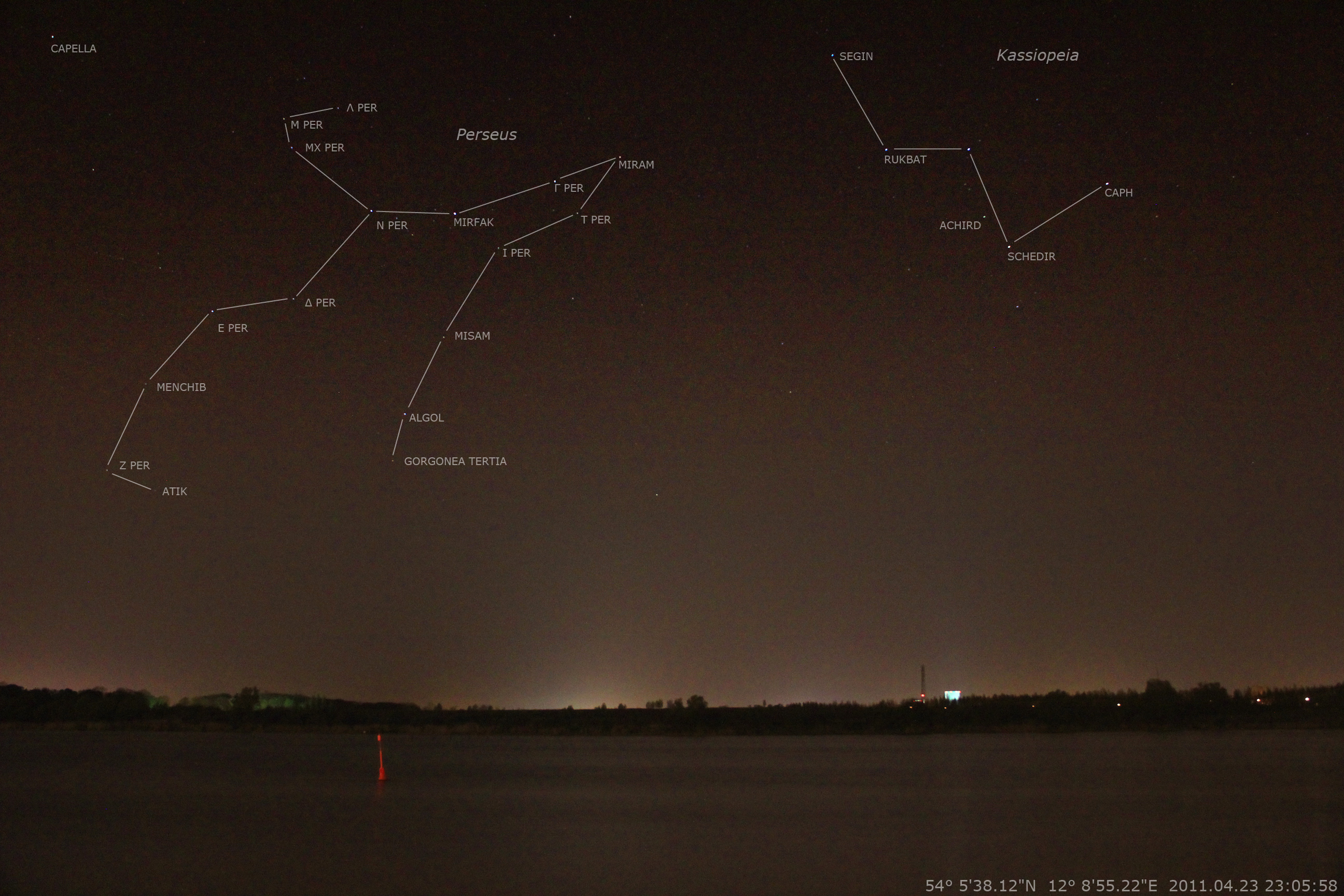 Constellation Perseus and Cassiopeia, Location Rostock - Germany